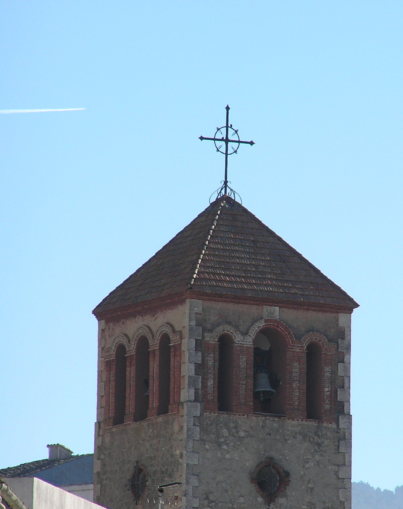 Campanario de la Parroquia